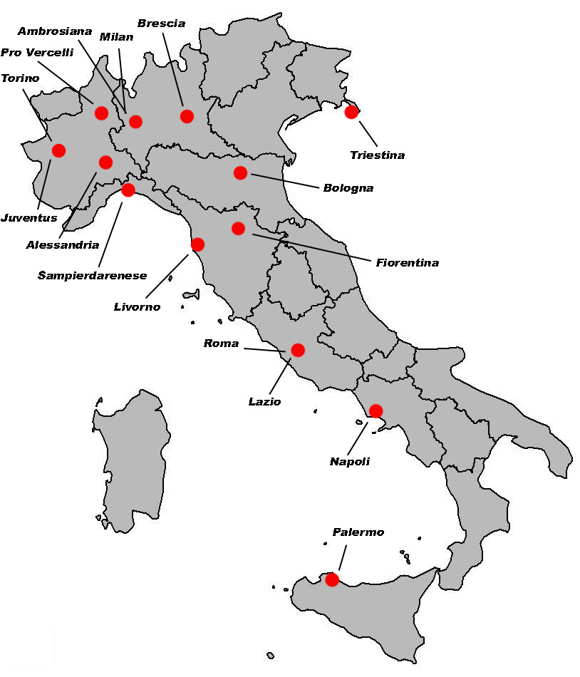 Serie A 1934-35 team locations